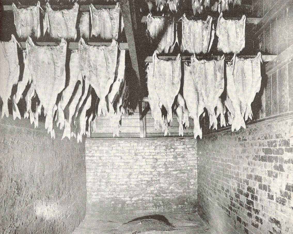 Smoking Finnan Haddie Subject: Haddock, Finnan haddie, Smoked fish, Salted fish Tag: Commercial Fisheries